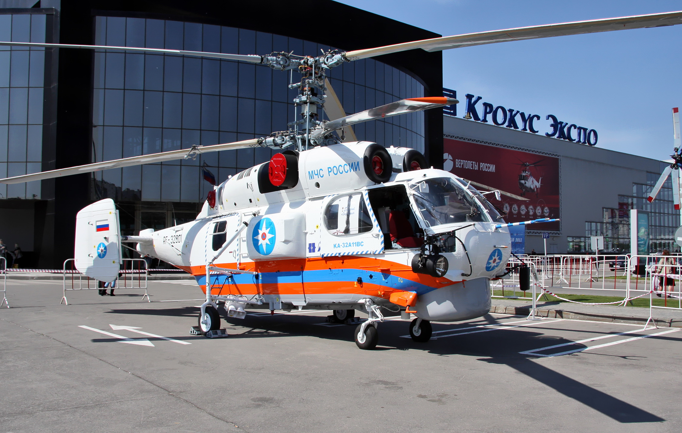 Ka-32A11VS